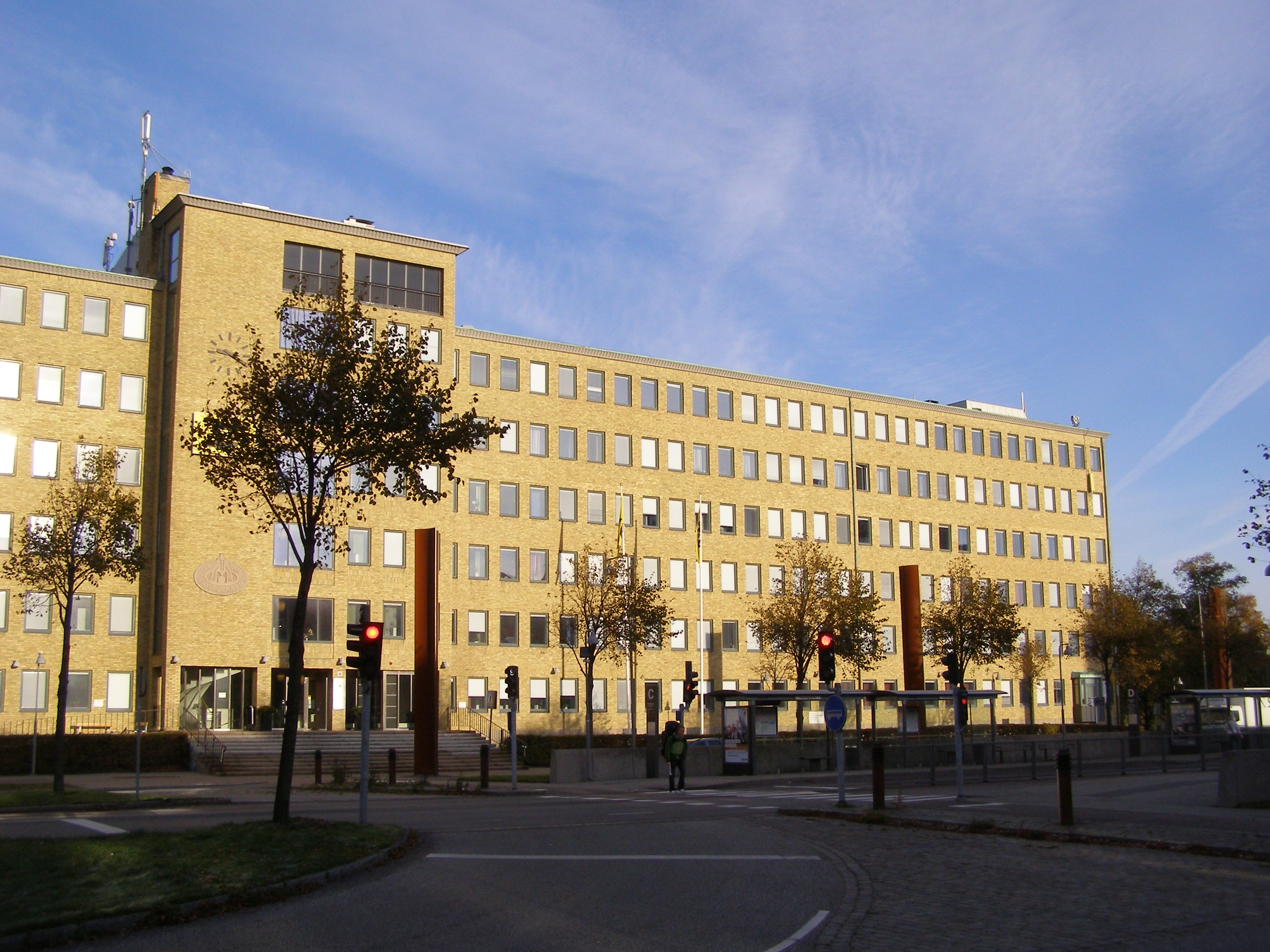 Gothenburg - ESAB AB headquarters in Lindholmen quarter